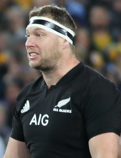 2017.08.19.20.07.18-Haka 2017 Rugby Championship, Bledisloe 1, Australia vs New Zealand, 19th August, ANZ Stadium, Sydney